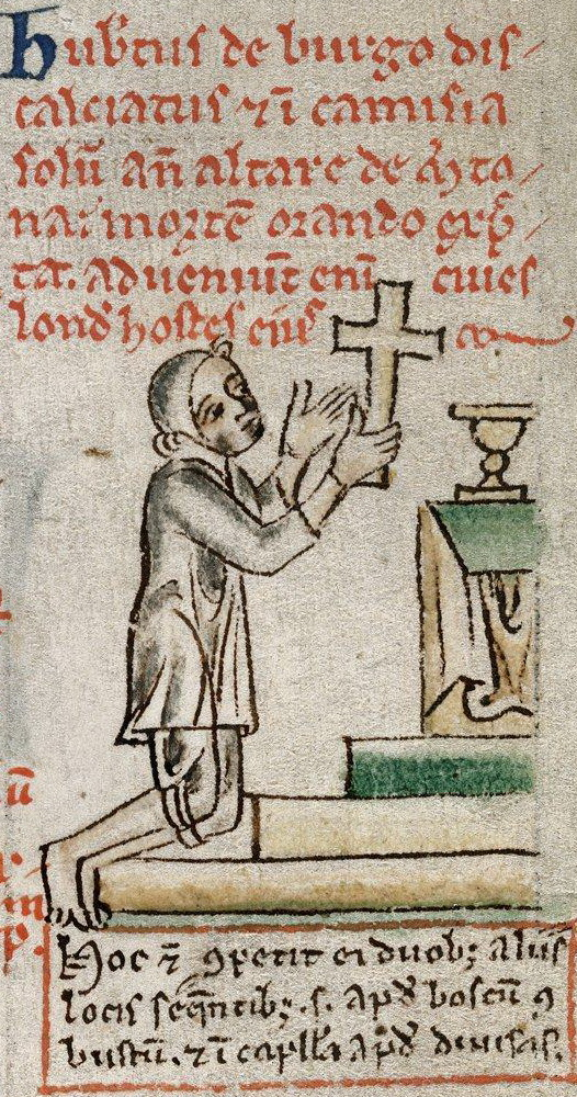 Hubert de Burgh kneeling at an altar, seeking sanctuary at Merton. British Library, Royal 14 C VII f. 119